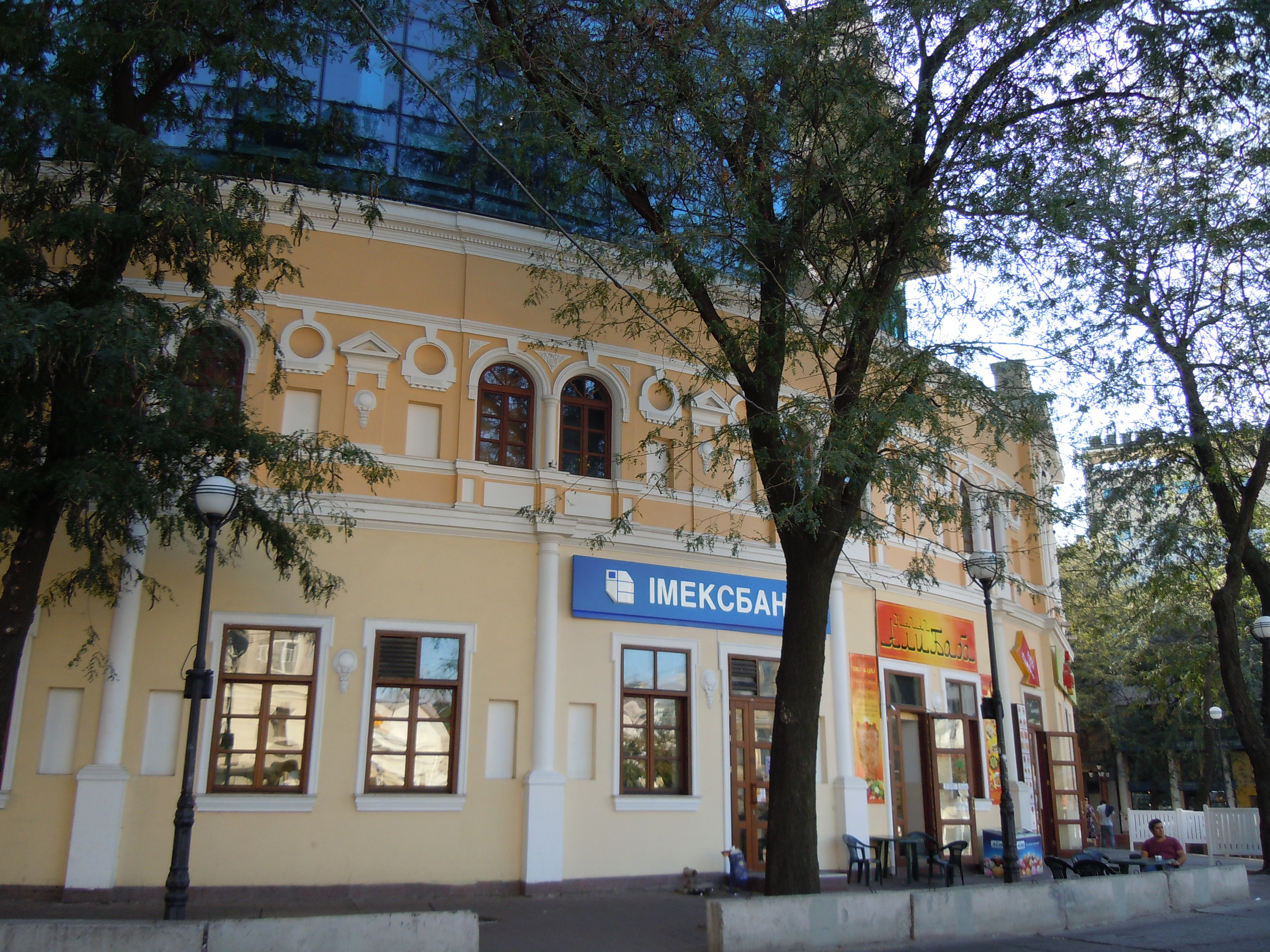 Mayurov House (or Round House), Hretska Ploshcha, Odessa. 1840s built, architector I.O. Dallakva. The building was reconstructed in the beggining of 2000s.